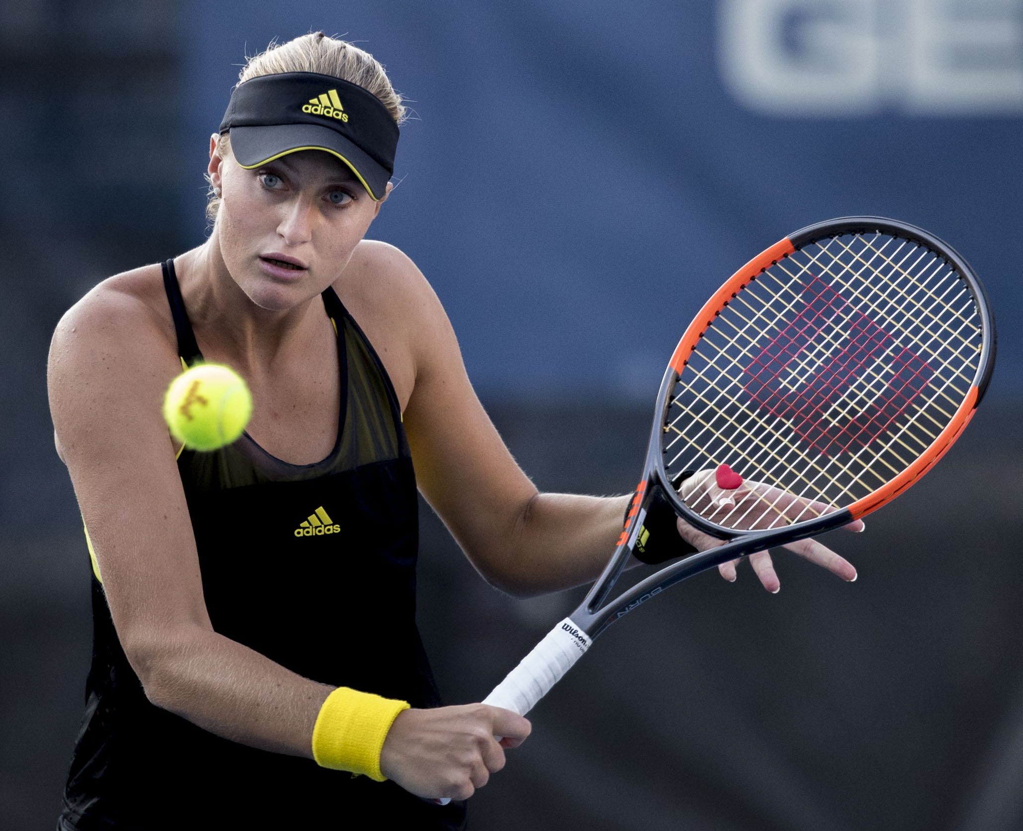 Kristina Mladenovic at the Citi Open 2017 in Washington, D.C.